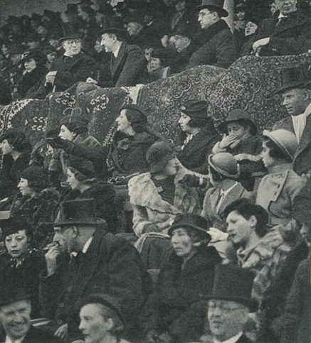 Tehran - people at horse race, 1935